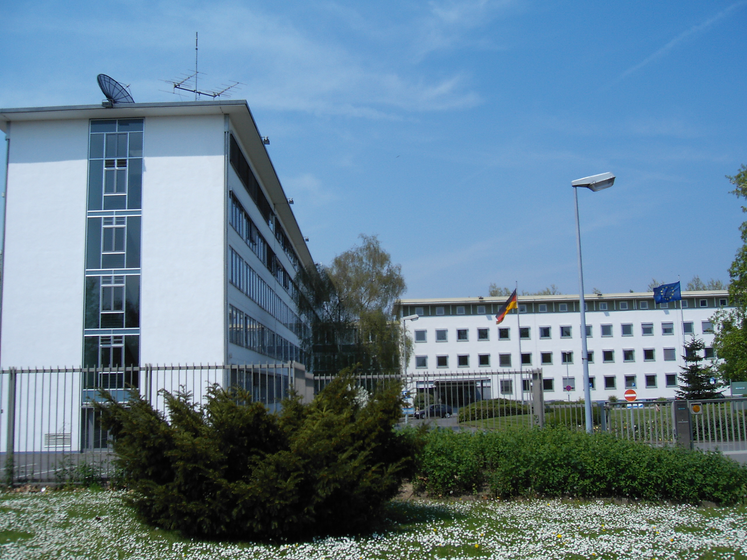 Seccond department of the Information office of the federal government (german Presse- und Informationsamt der Bundesregierung) in Bonn.